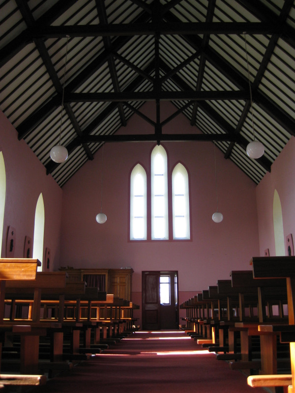 Interior of Moymore Church Liscannor Co. Clare